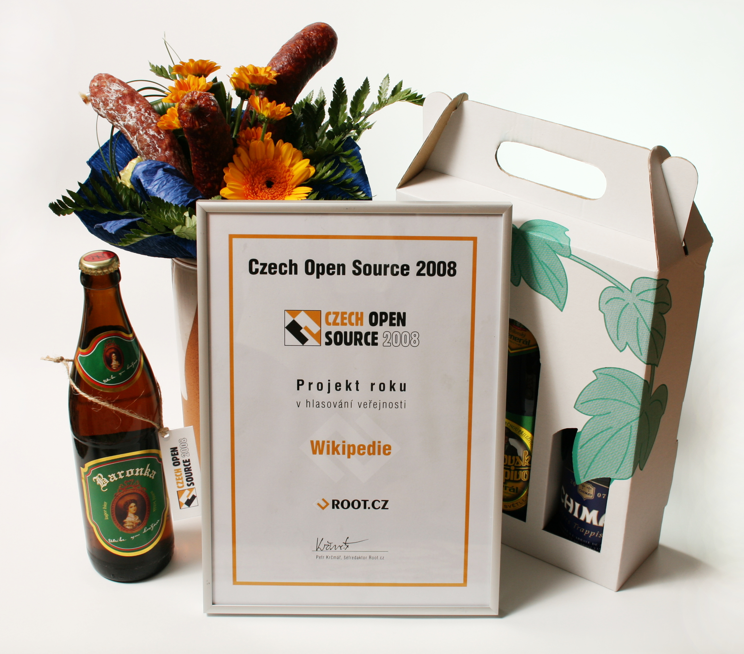 Plaque, sausage bouquet and beer Czech Wikipedia got as Czech Open Source Project of the Year 2008